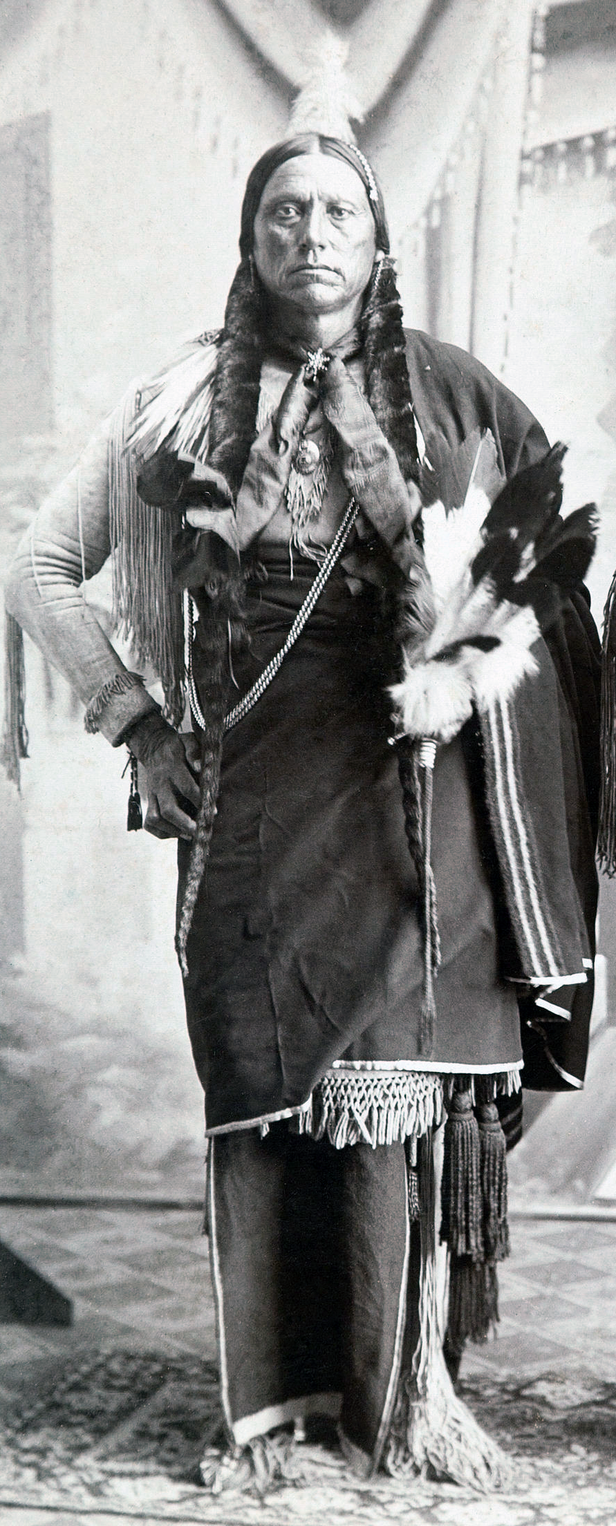 Collodion Silver Print image of Quanah Parker